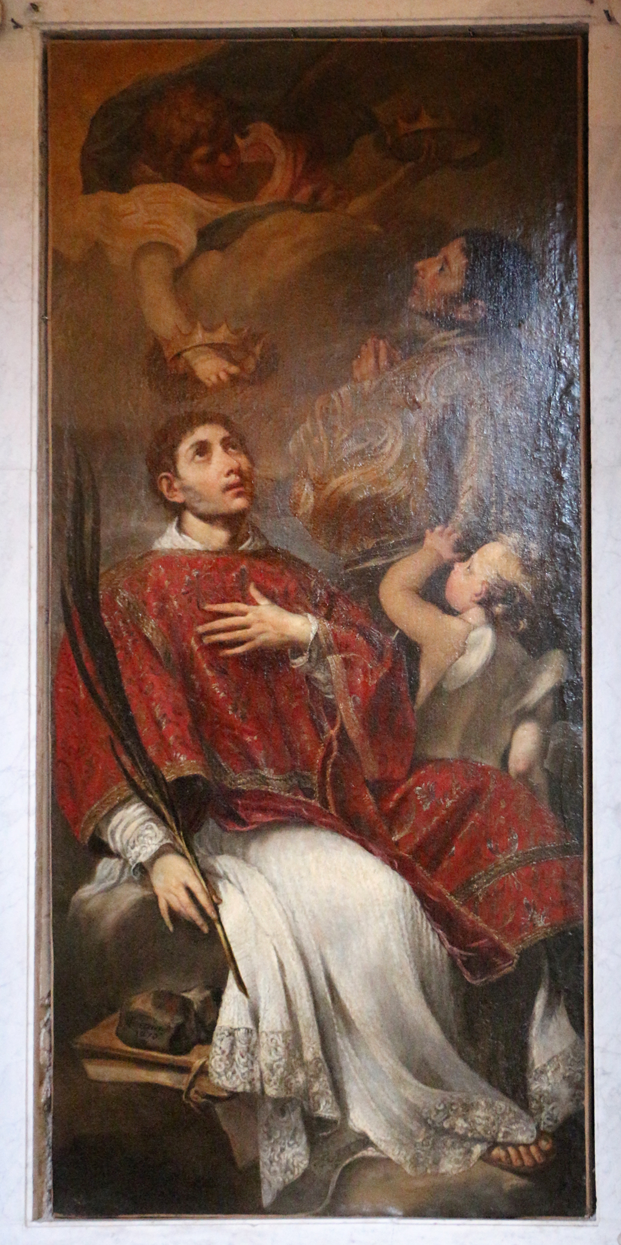 Santa Cecilia (Rome)